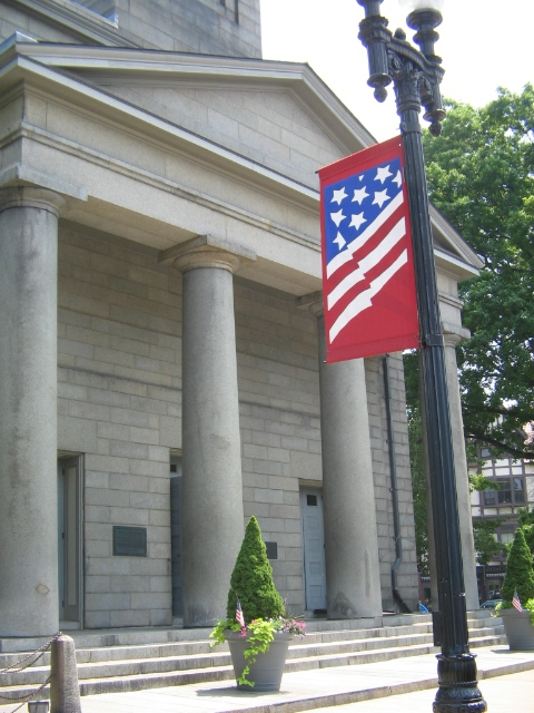 Photo Taken by Author